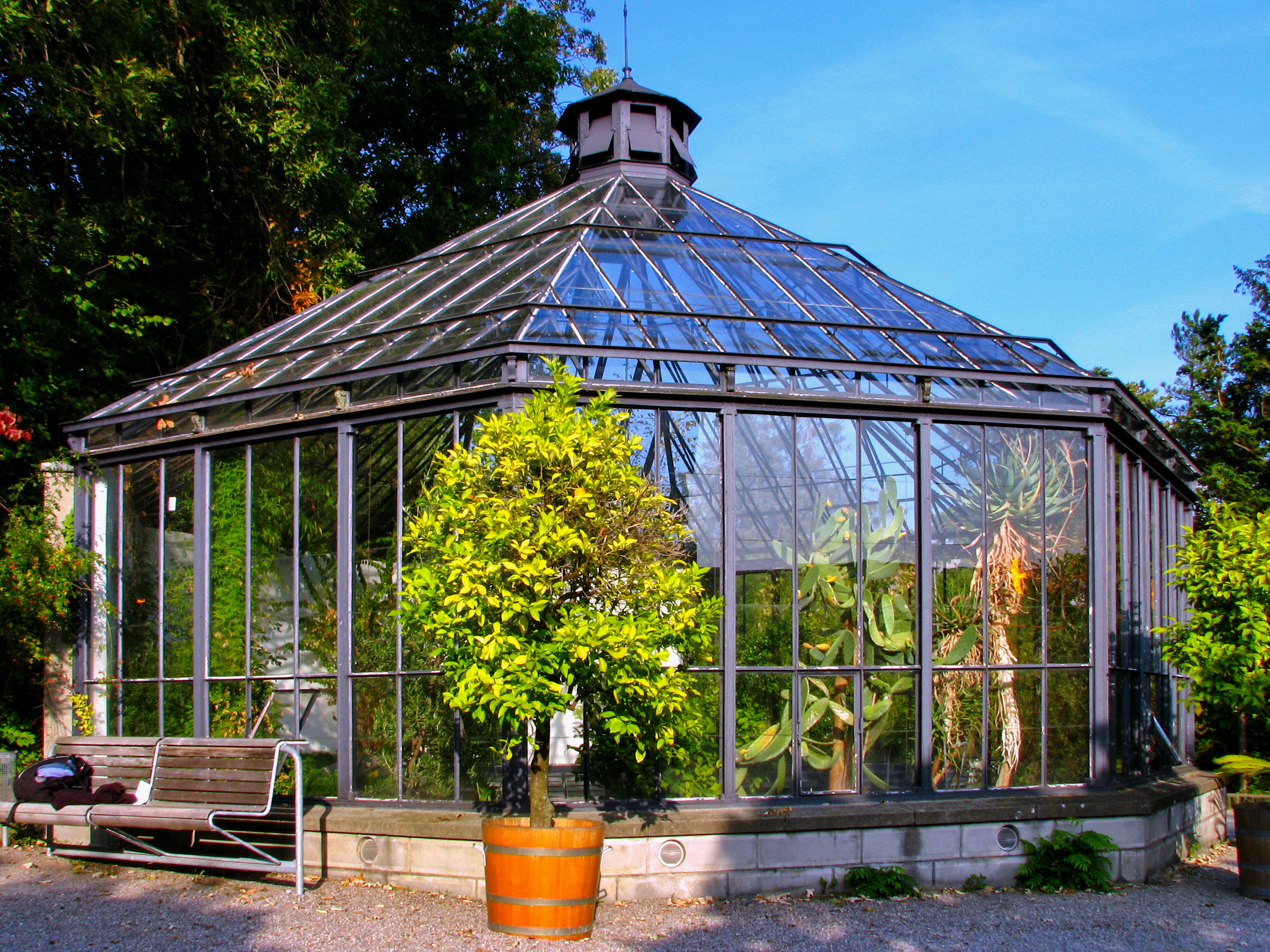 Zürich, Botanical Garden «zur Katz» : Greenhouse (1851/1877) on the areal of the Völkerkundemuseum (Museum of Ethnology), University of Zürich.